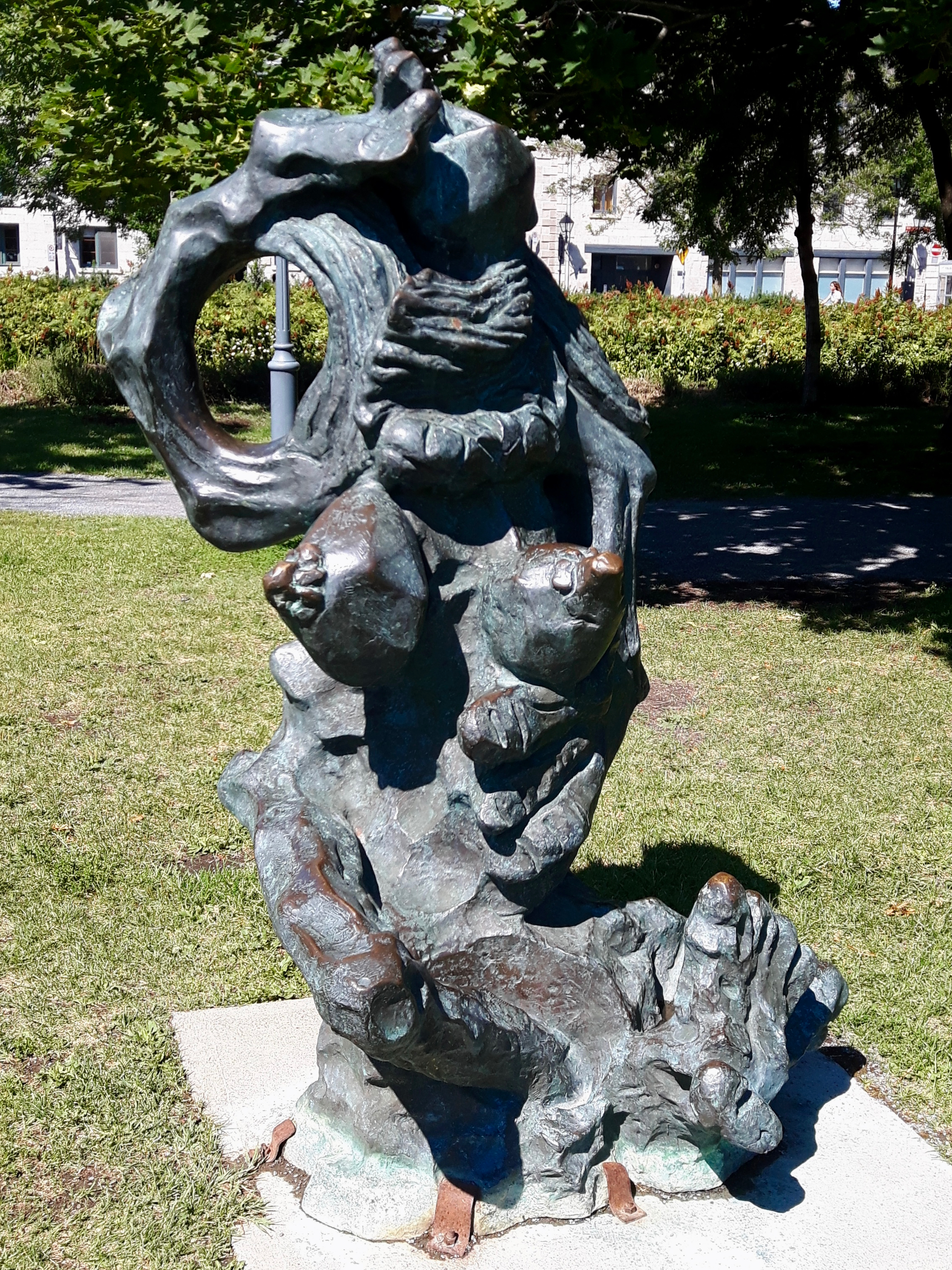 Femme tourmentée. artist: André Masson. location: Vieux-Port, Montreal. year: 1942. material: Bronze.